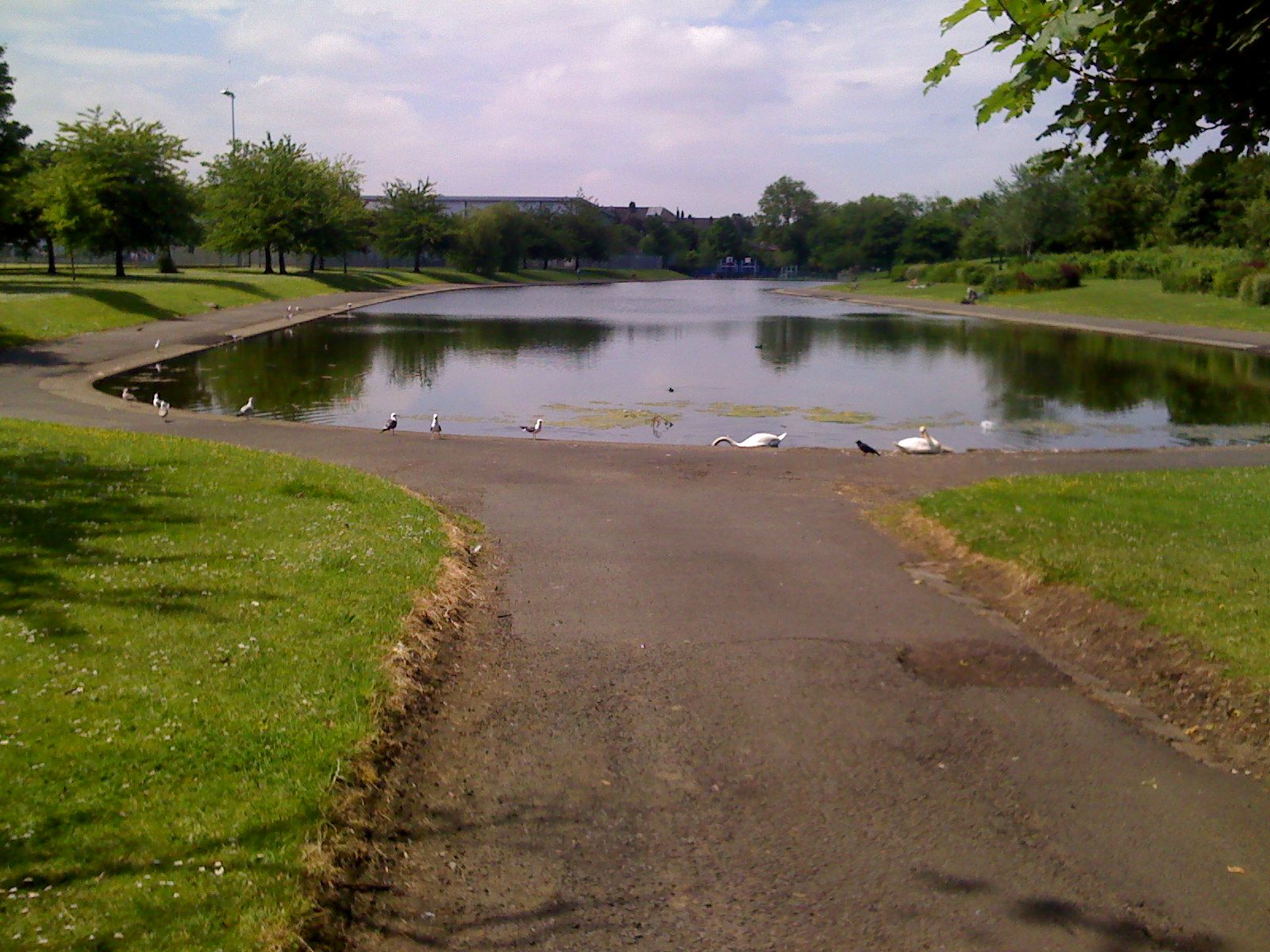 Alexandra Park, Glasgow